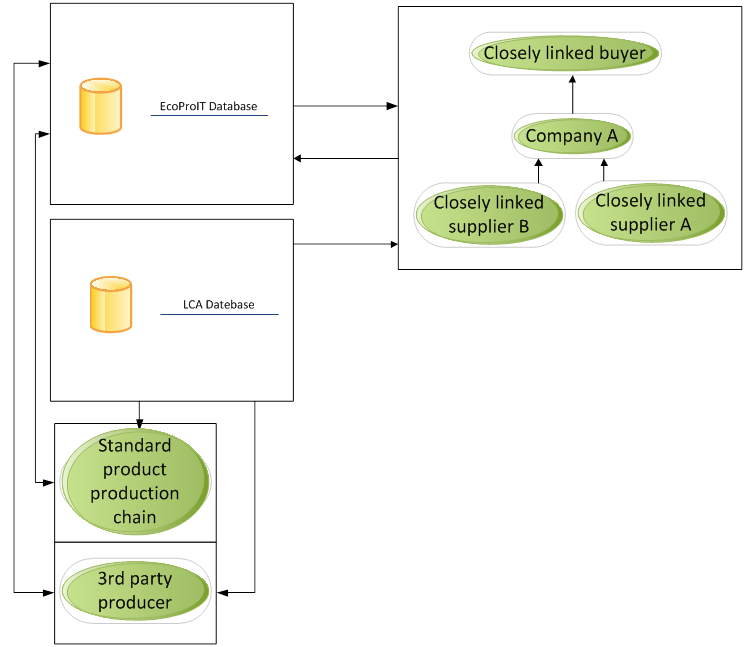 Conceptual vision for the use of the EcoProIT tool.